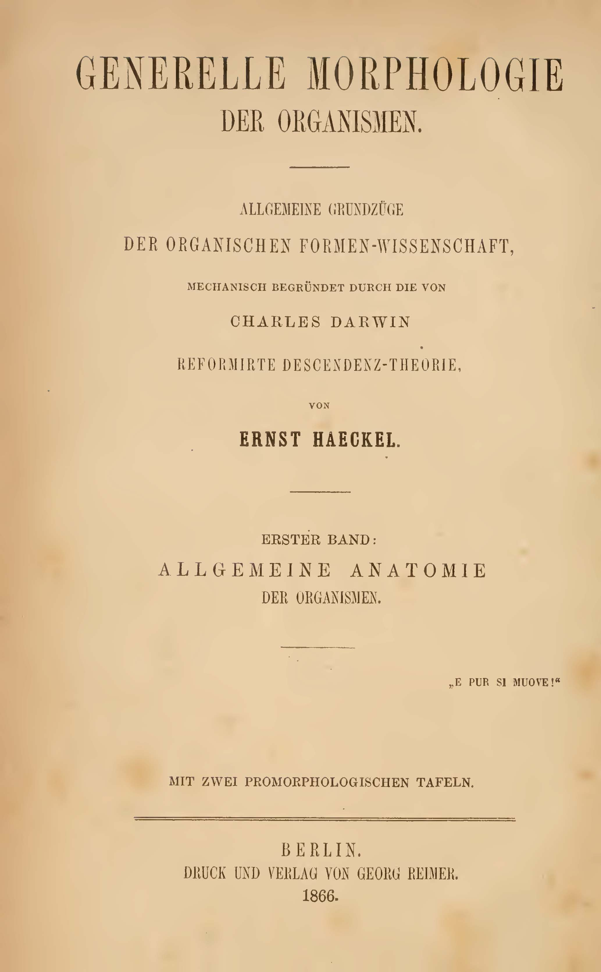 Frontispiece of Ernst Haeckel: Generelle Morphologie der Organismen. Allgemeine Grundzüge der organischen Formen-Wissenschaft, mechanisch begründet durch die von Charles Darwin reformirte Descendenz-Theorie. Berlin, 1866